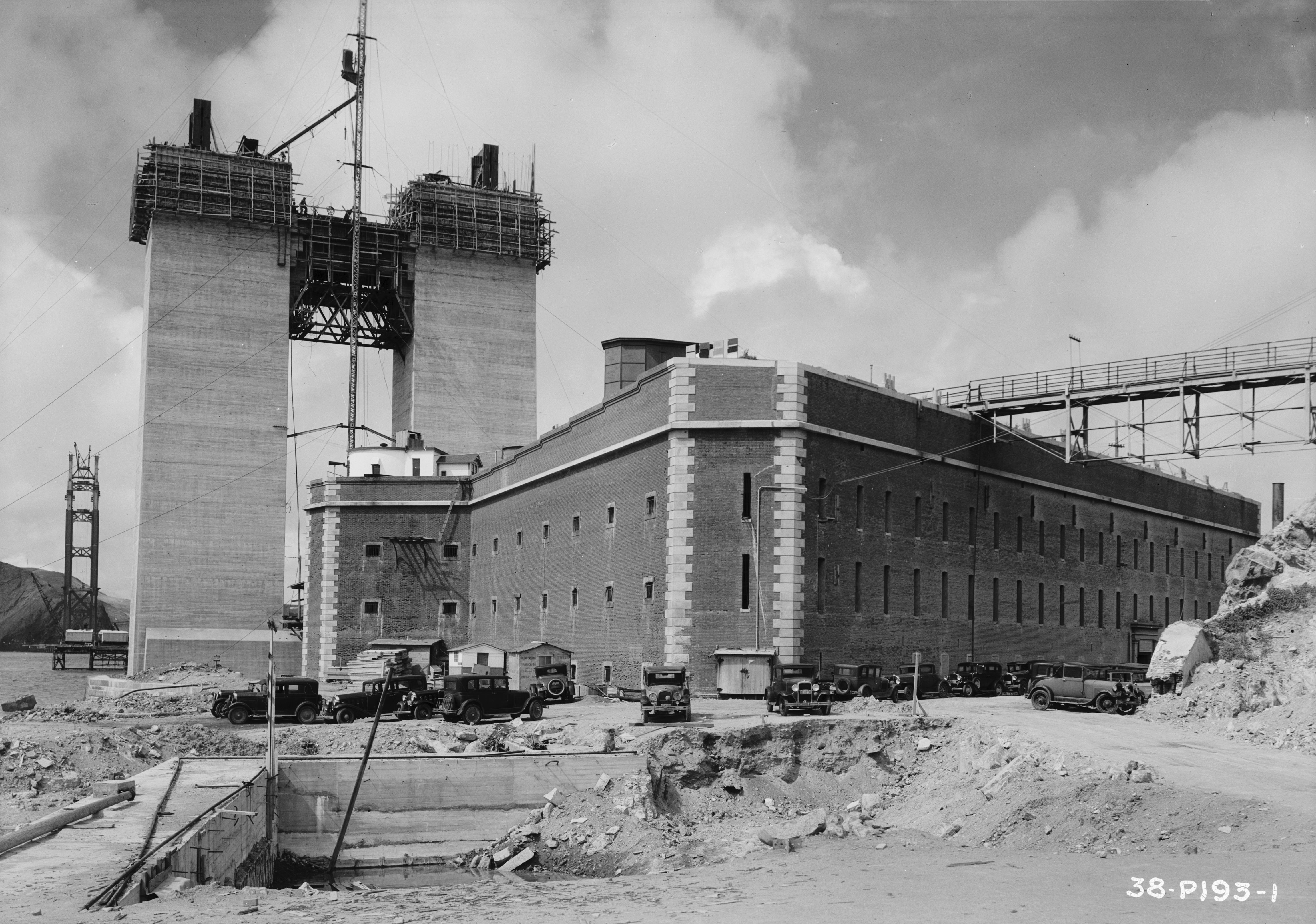 View north of Fort Point National Historic Site, with the Golden Gate Bridge under construction, in San Francisco (1934). HAER—Historic American Engineering Record images of the Golden Gate Bridge.